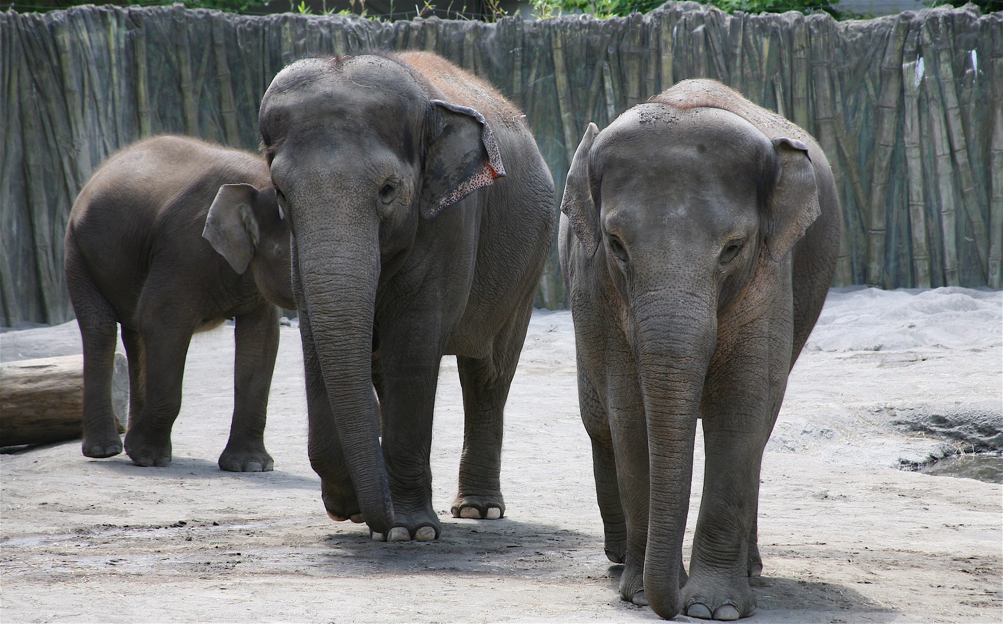 Asian Elephants (Elephas maximus) at the Oregon Zoo. From left to right; Chendra( a Borneo elephant, sub-species of Asian elephant, Sung-Surin(shine), and Rose-Tu.